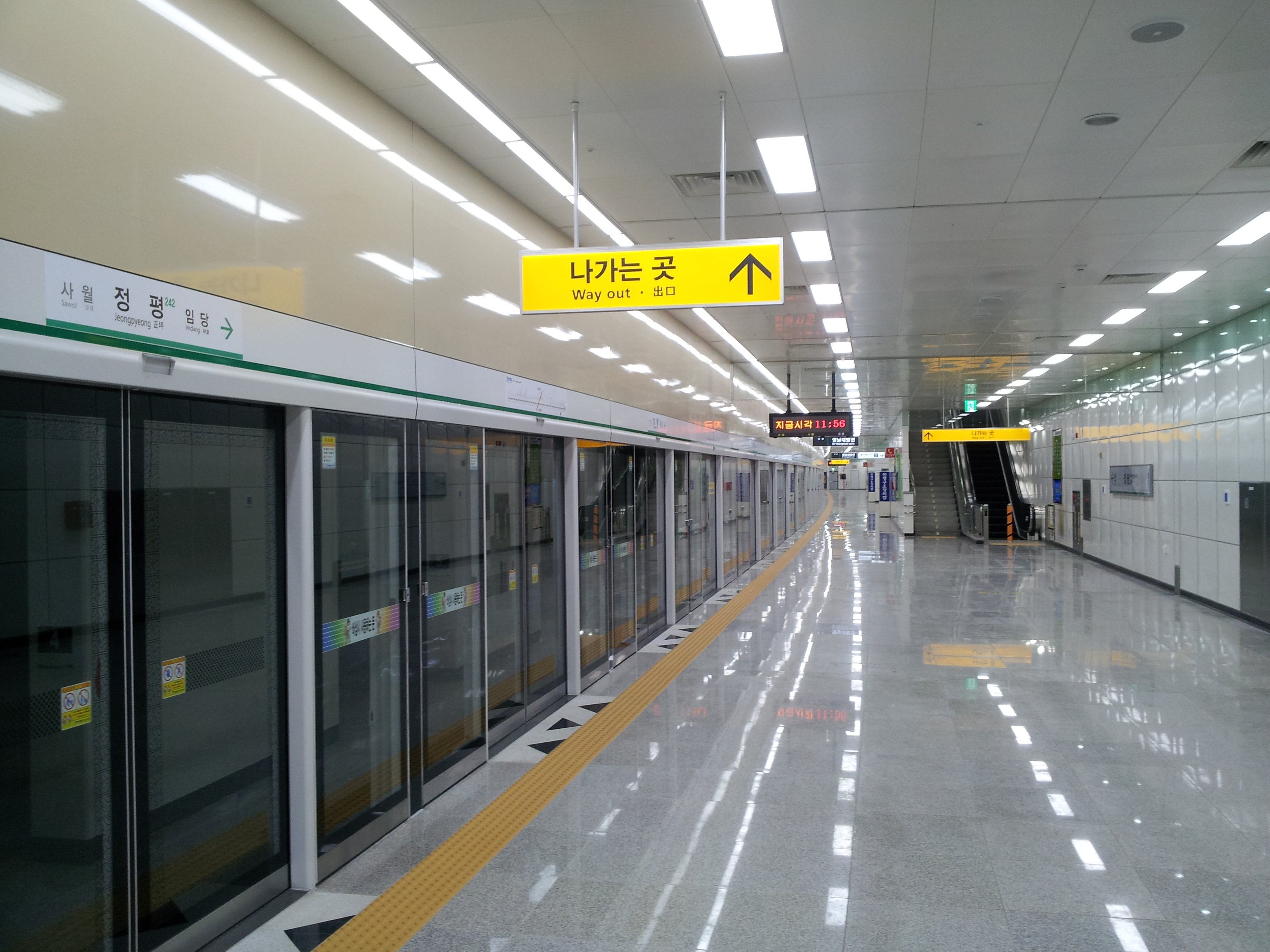 Jeongpyeong Stn.